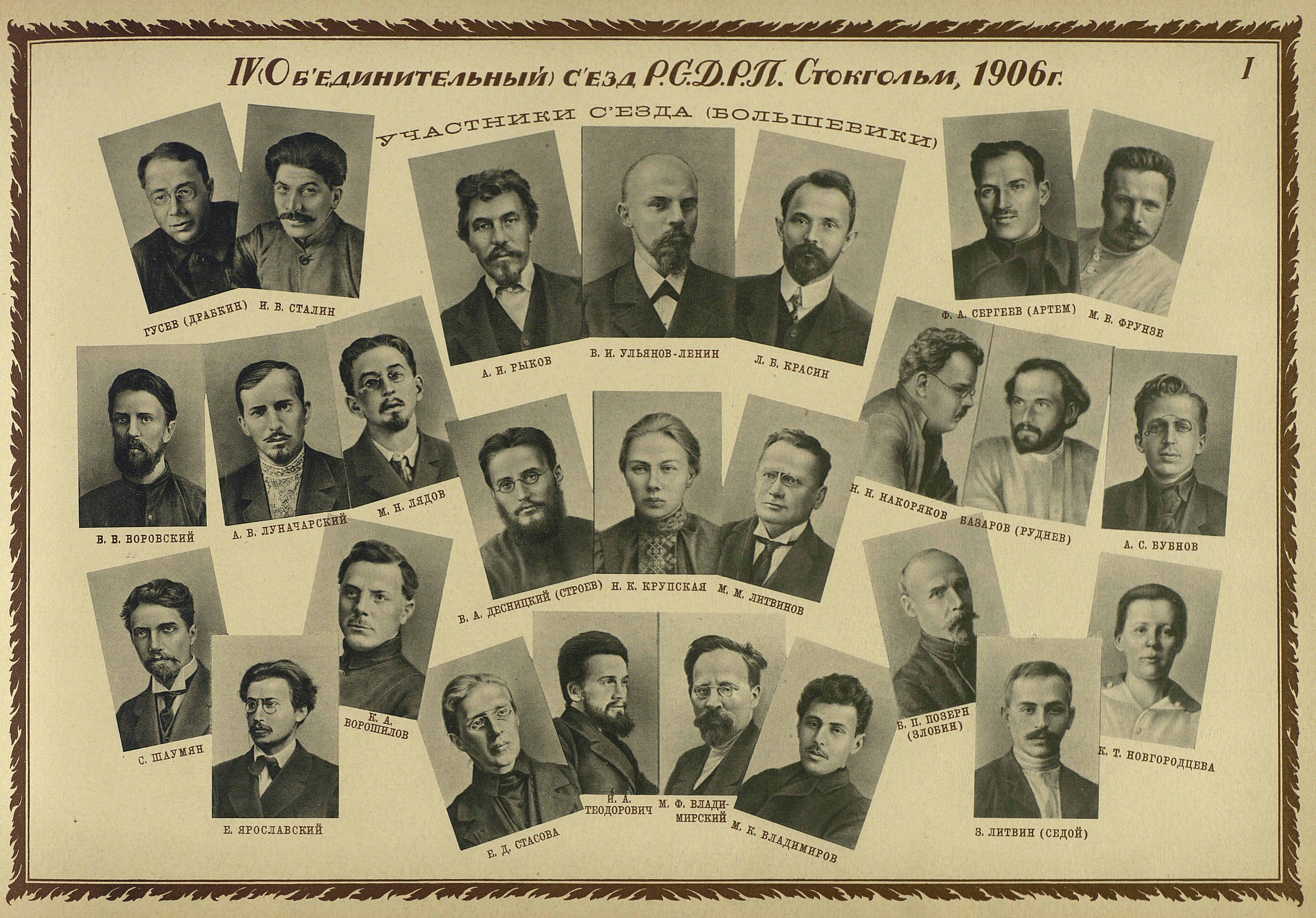 Bolshevik delegates at the w:4th Congress of the Russian Social Democratic Labour Party in Stokholm in 1906, from a 1926 album on the history of the All-Union Communist Party (bolsheviks). First row: Sergey Gusev (Drabkin), Joseph Stalin, Alexei Rykov, Vladimir Lenin, Leonid Krasin, Fyodor Sergeyev (Artyom), Mikhail Frunze Second row: V. V. Vorovsky, A. V. Lunacharsky, M. N. Lyadov, V. A. Desnitsky (Stroev), Nadezhda Krupskaya, Maxim Litvinov, N. N. Nakoryakov, V. A. Bazarov (Rudnev), A. S. Bubnov Third row: S. Shaumyan, K. Voroshilov, E. Yaroslavsky, E. D. Stasova, I. A. Teodorovich, M. F. Vladimirsky, M. K. Vladimirov, B. P. Pozern (Zlobin), Z. Litvin (Sedoy), K. T. Novgorodtseva